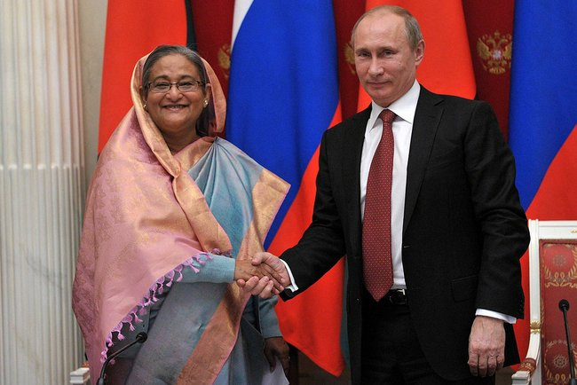 Vladimir Putin held talks with Prime Minister of Bangladesh Sheikh Hasina (Moscow; 2013-01-15).